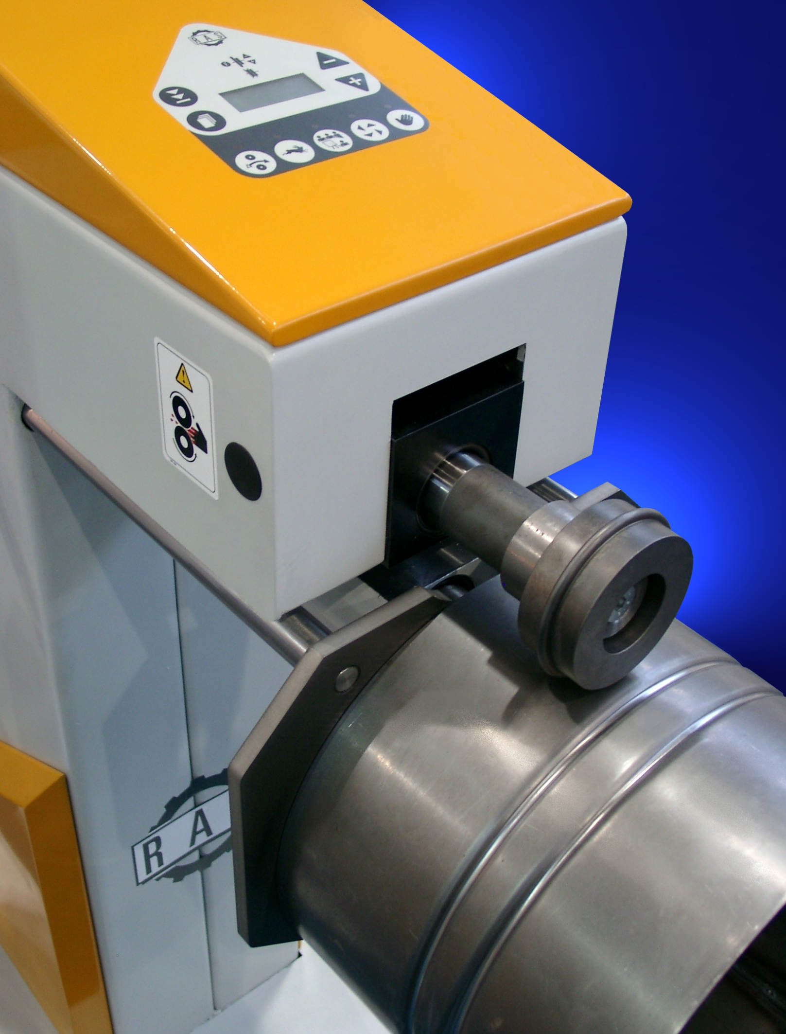 Seaming a cylindrical metal pipe